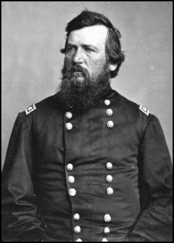 photo of Charles Robert Woods (1827-1885)